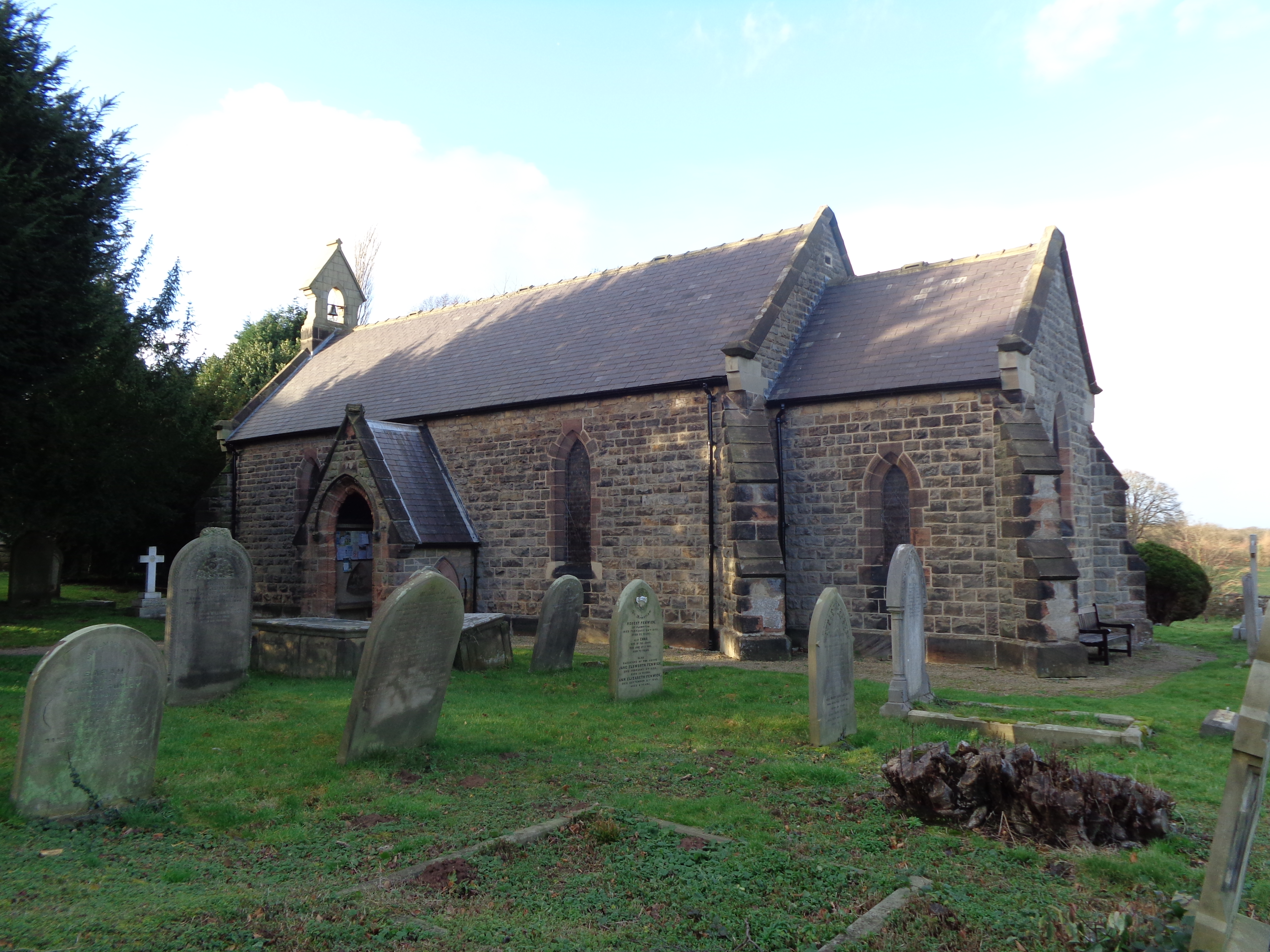 St. Joseph and St James Church, Plompton Road, Follifoot, North Yorkshire. Taken on the afternoon of Tuesday the 24th of December 2013.